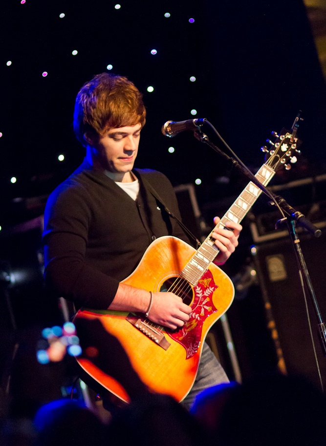 Stephen Jerzak in concert